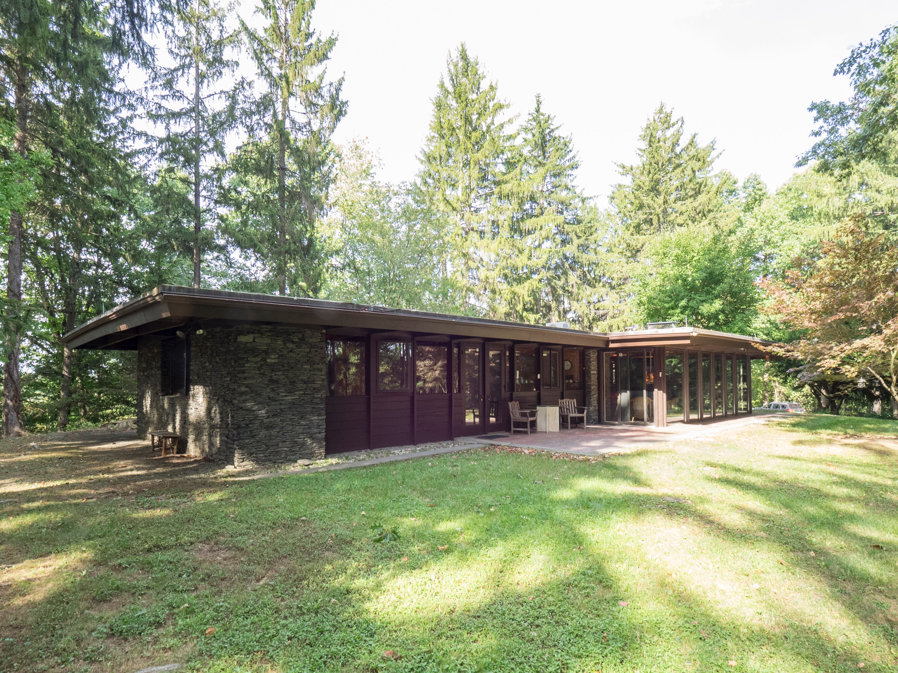 Calabi-Picker House Other information Please do not delete this file it was uploaded by Ms. Day and I have provided a Ticket number.